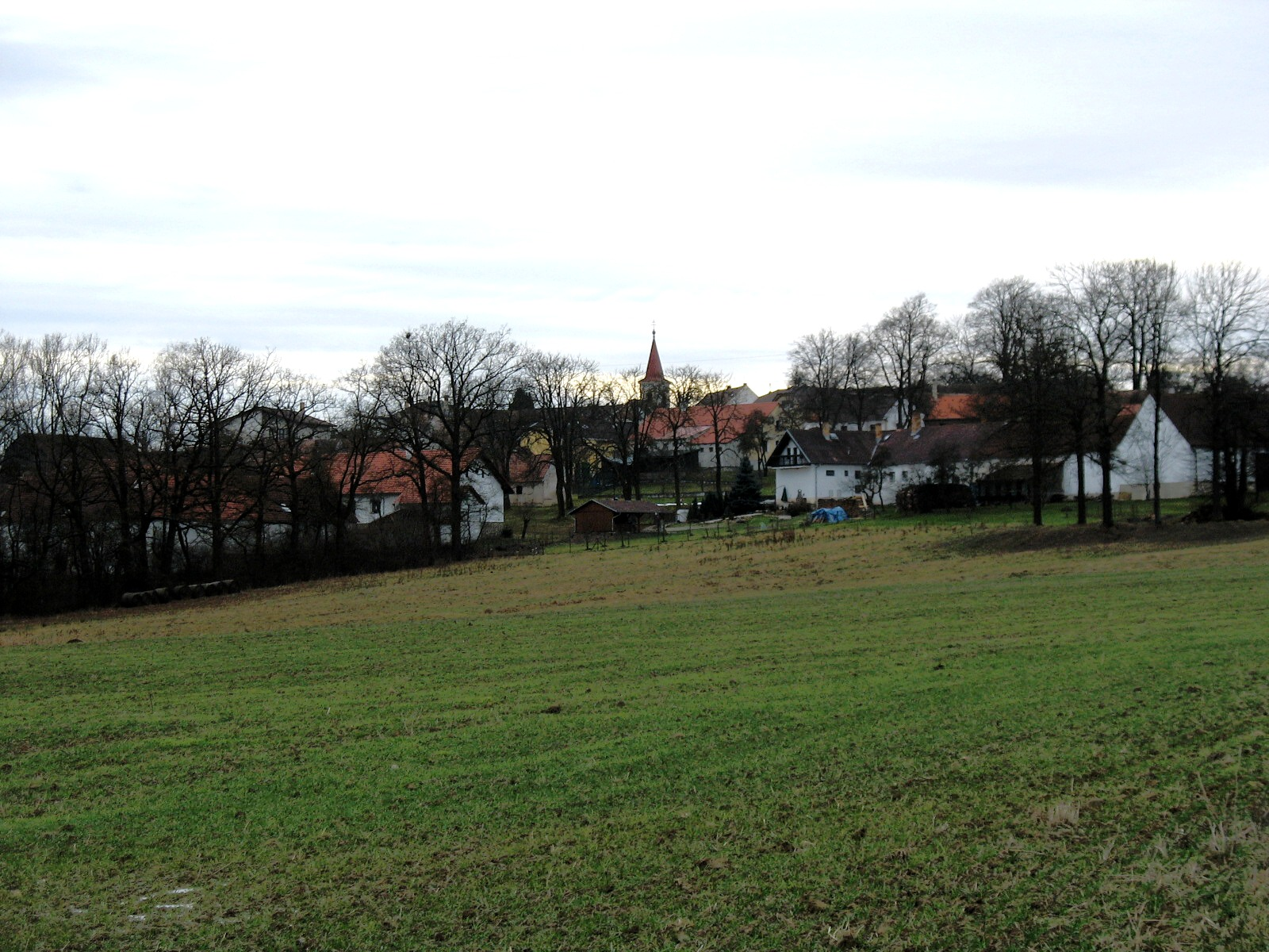 Village Jivno in České Budějovice District (Czech Republic)